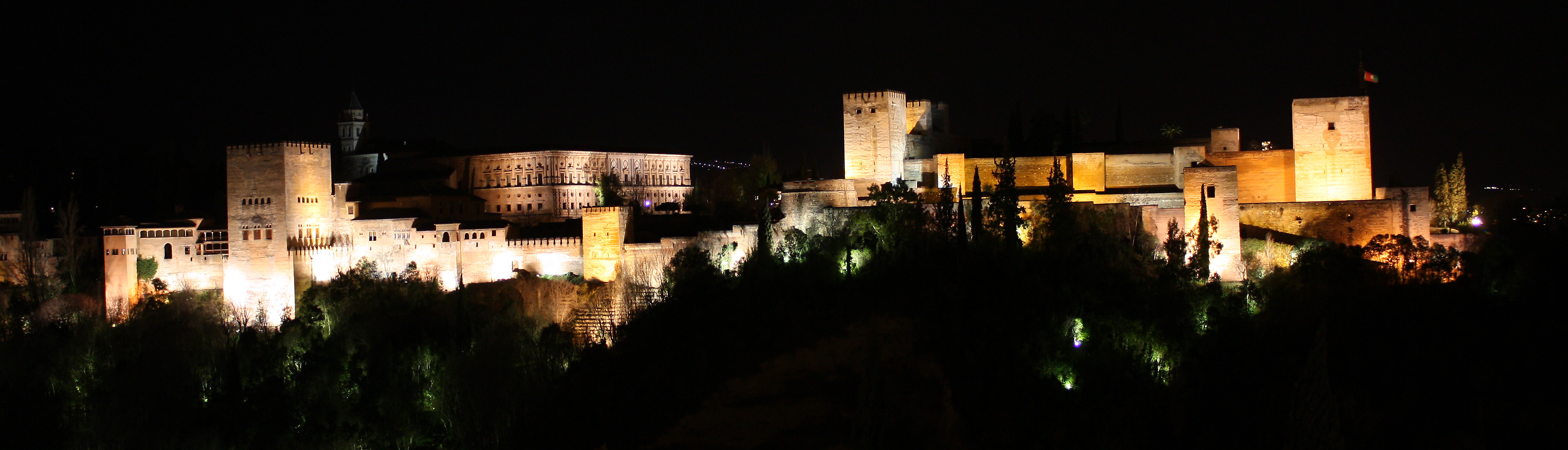 Alhambra at night